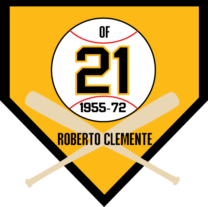 Retired Jersey #21